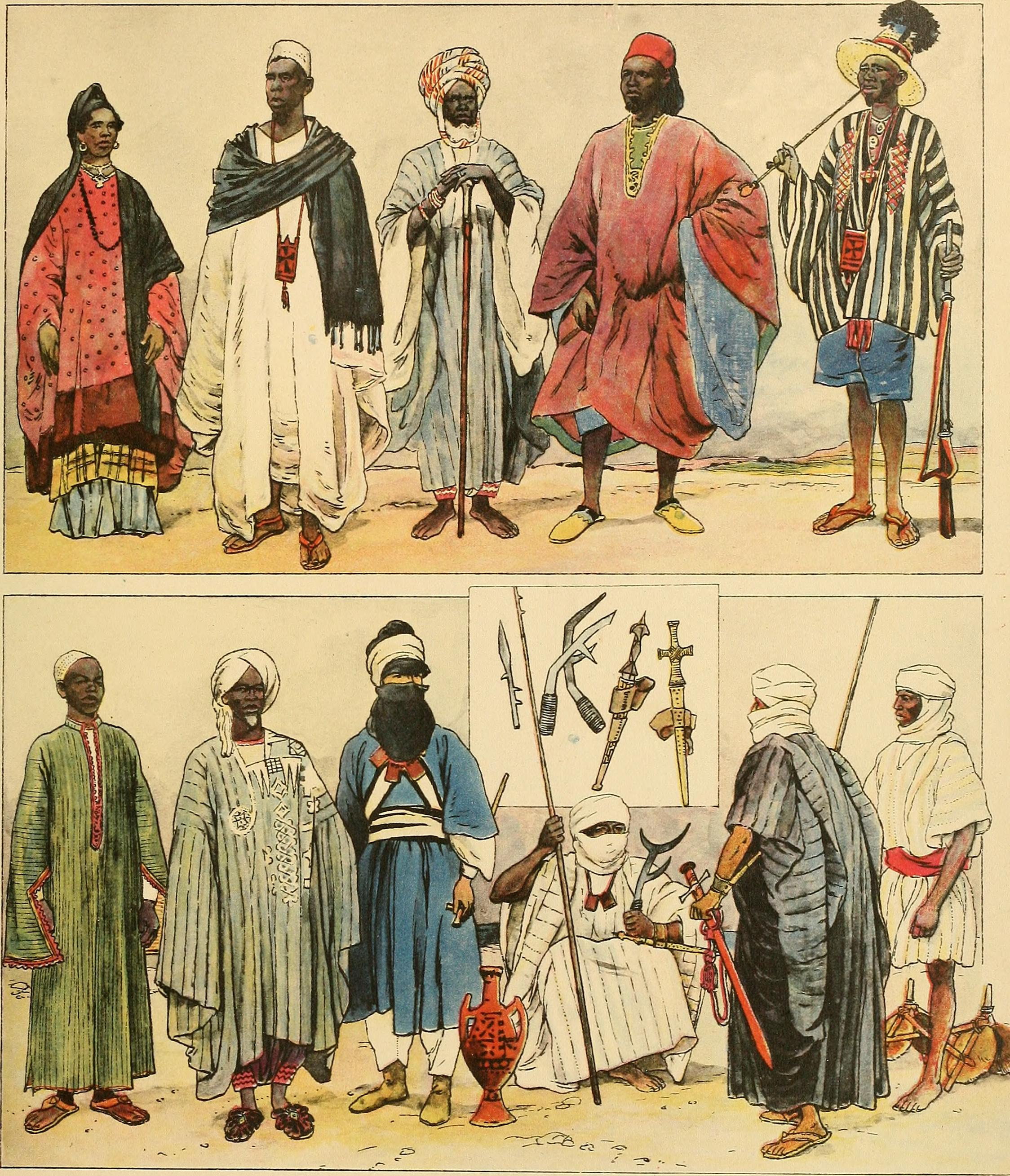 Title: Geschichte des Kostüms Year: 1905 (1900s) Authors: Rosenberg, Adolf, 1850-1906 Heyck, Eduard, 1862-1941 Subjects: Costume Publisher: New York, Weyhe Depicted ethnic groups First row: 1) Rich woman from Senegal 2) Fulbe man 3) Hausa nobleman 4) Negroid man from southern Maroc 5) Caravan leader from Senegal Second row: 1) Man from Kordofan 2) Man from Bornu 3) Tuareg man 4) Tibbu man 5) Tibbu men